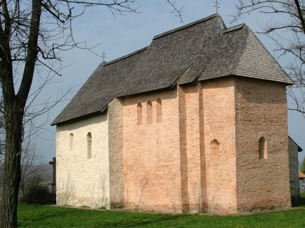 Church of Egyházasdengeleg, Hungary.